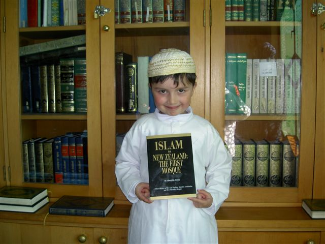 Islam in New Zealand book launch, 2007. Young boy holds book.